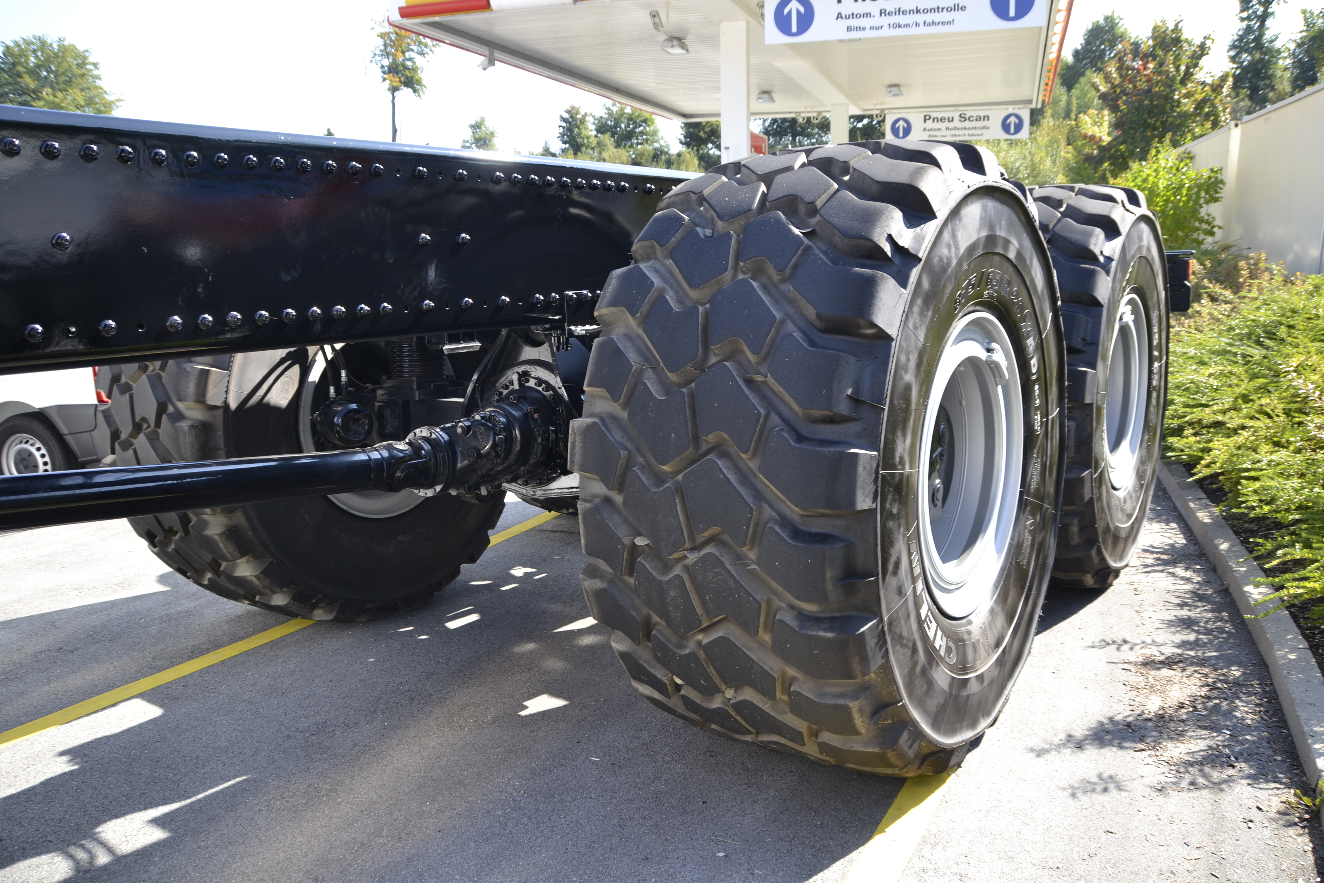 Paul Heavy Mover HM 80 570.